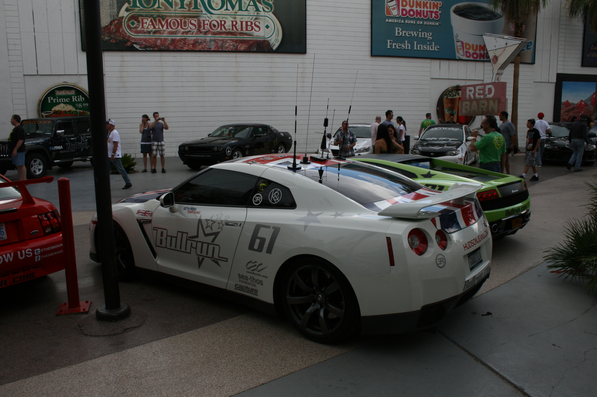 Team Exotics Rally, 2011 Bullrun Navigator award winning Nissan GTR